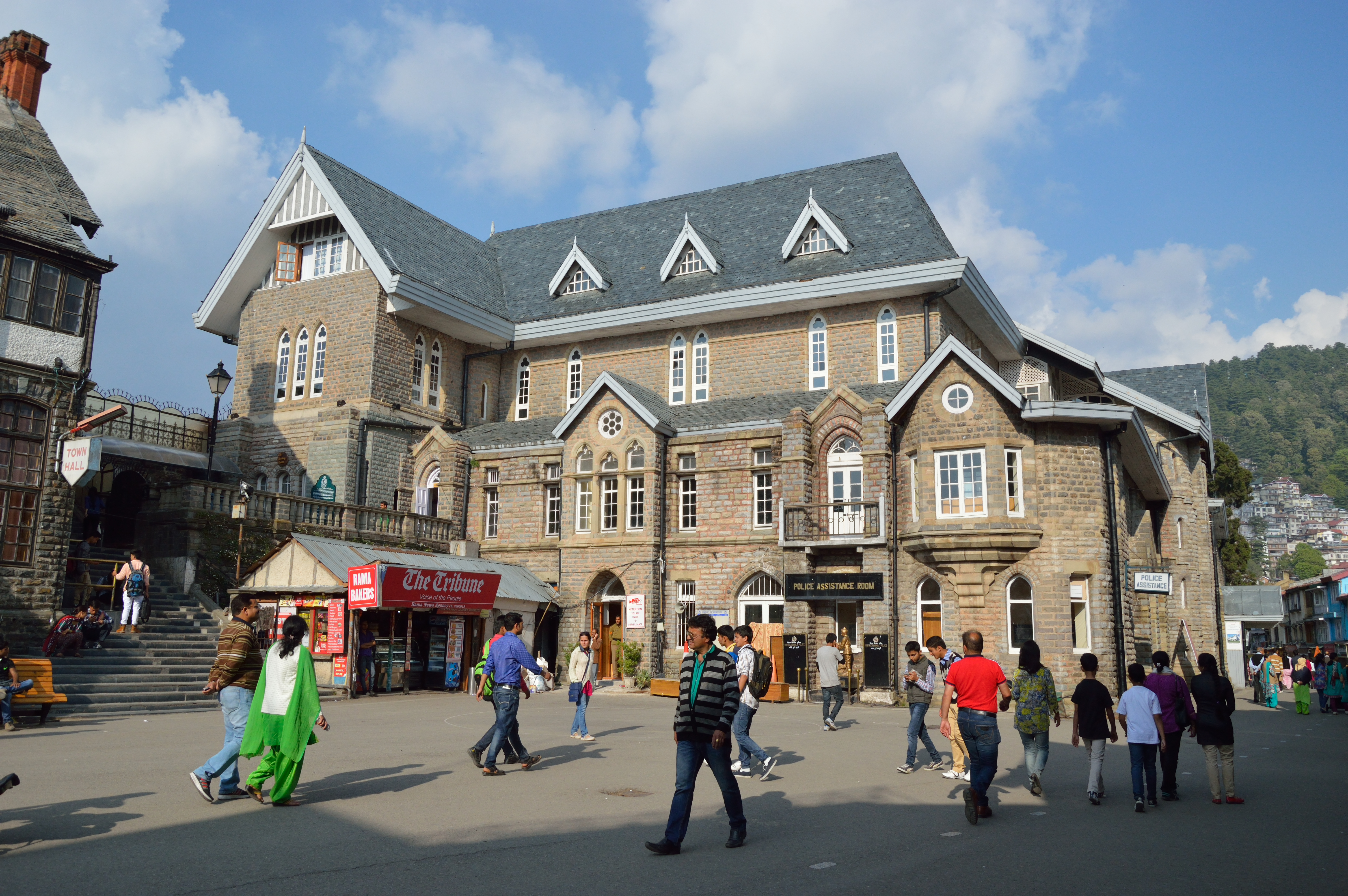 The Gaiety Heritage Cultural Complex in Shimla, on The Ridge. This photograph has been uploaded during the 'Wiki Loves Monuments 2014' from India.